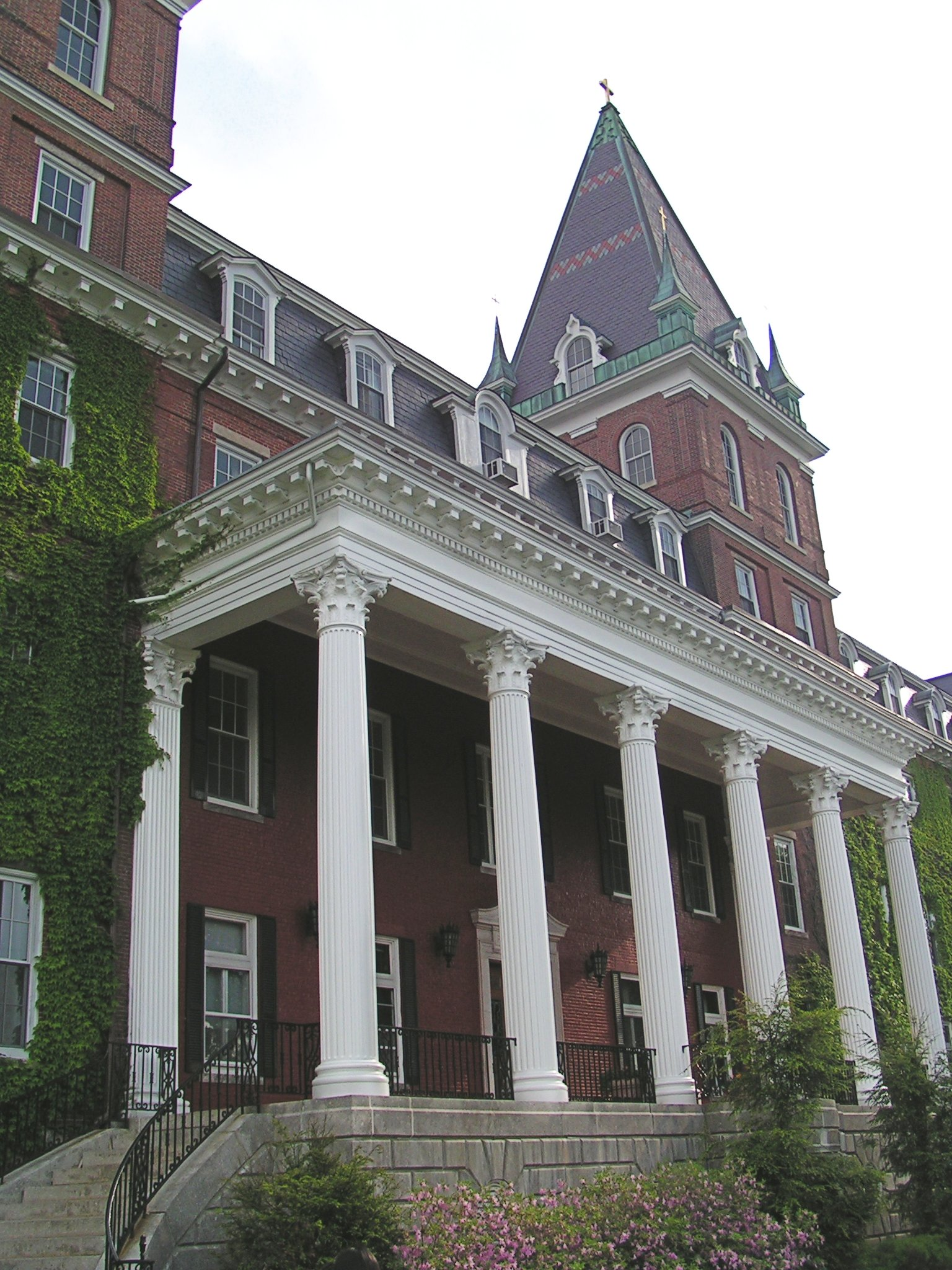 Fenwick Hall, College of the Holy Cross, Worcester Massachusetts